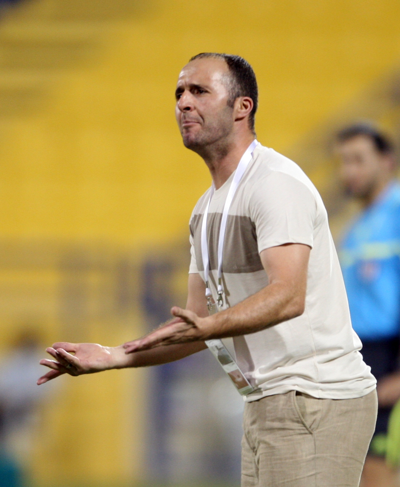 Lekhwiya coach Djamel Belmadi gestures during his team's game in the Qatar Stars League.